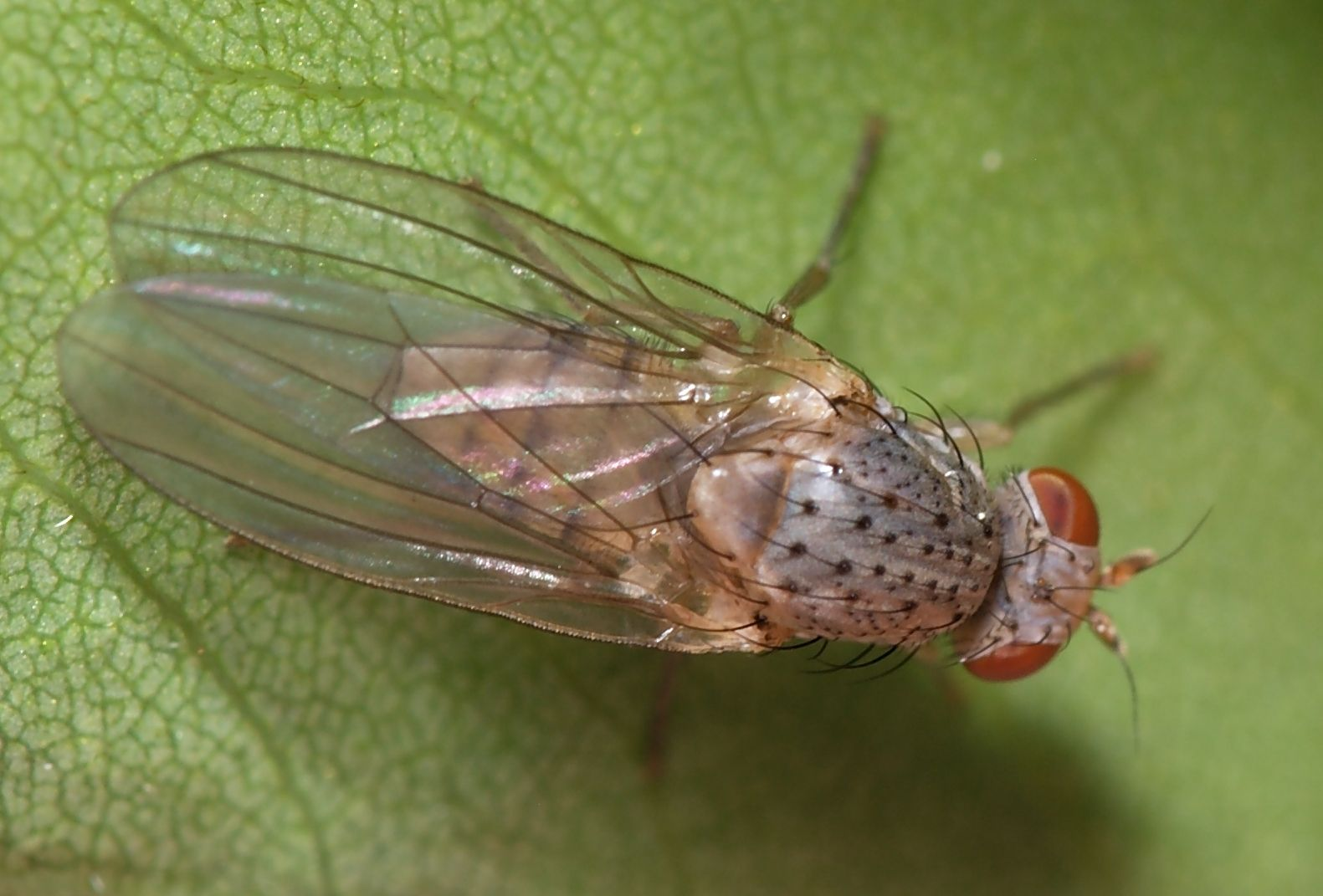 female of Pseudolyciella pallidiventris group (det. Paul Beuk), from Cologne, Germany.